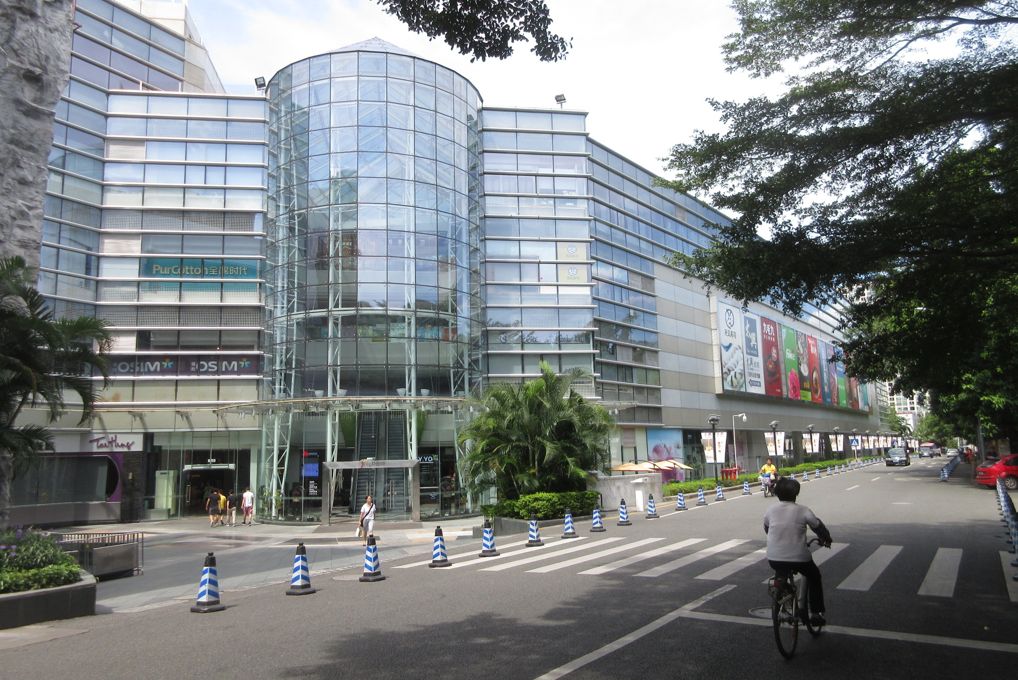 SZ 深圳 Shenzhen 蛇口 Shekou 花園路 Huayuan Road in October 2017